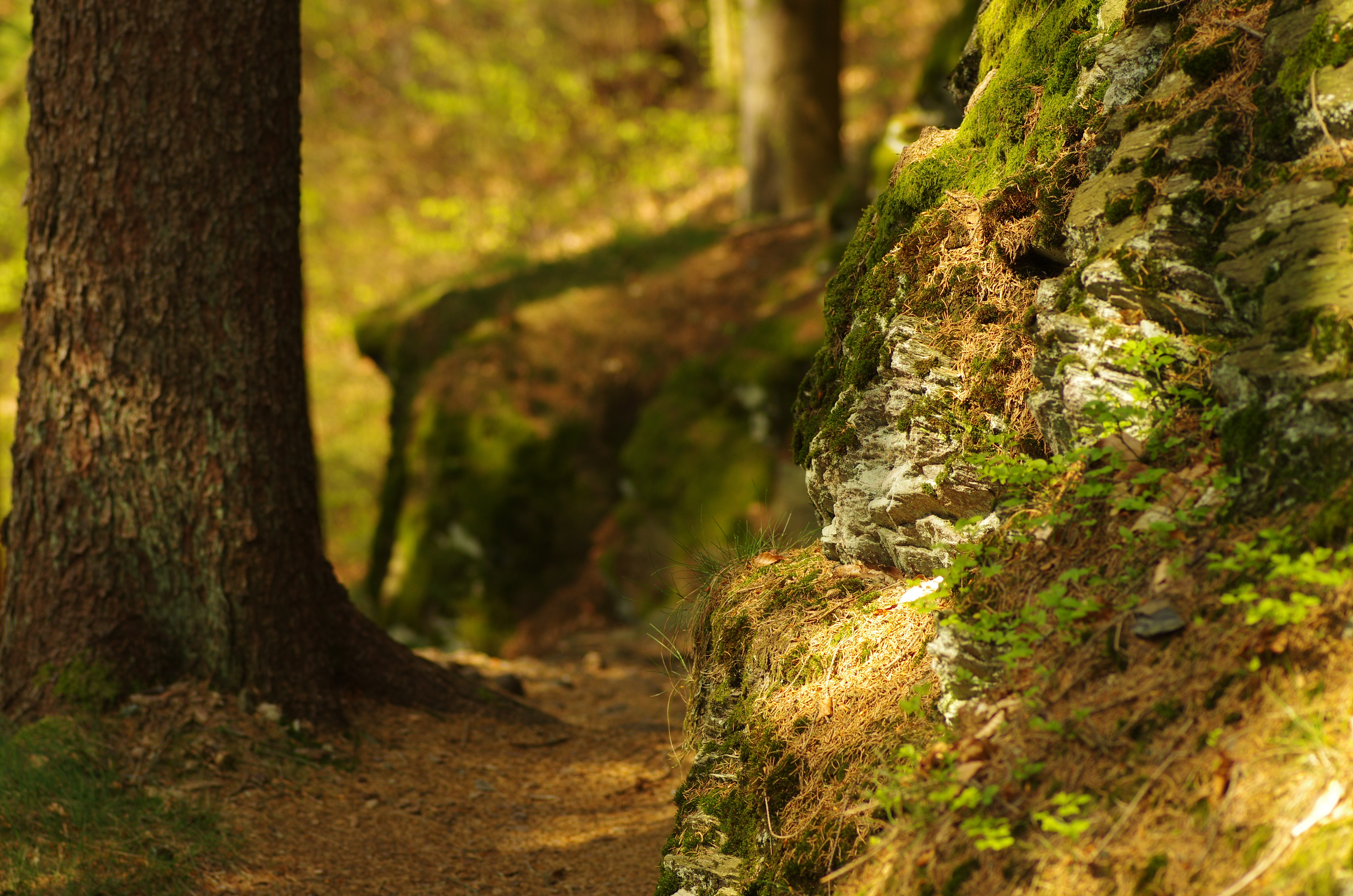 Rock formation in the reserve "Leierloch" in Steinach, Thuringia (Germany)